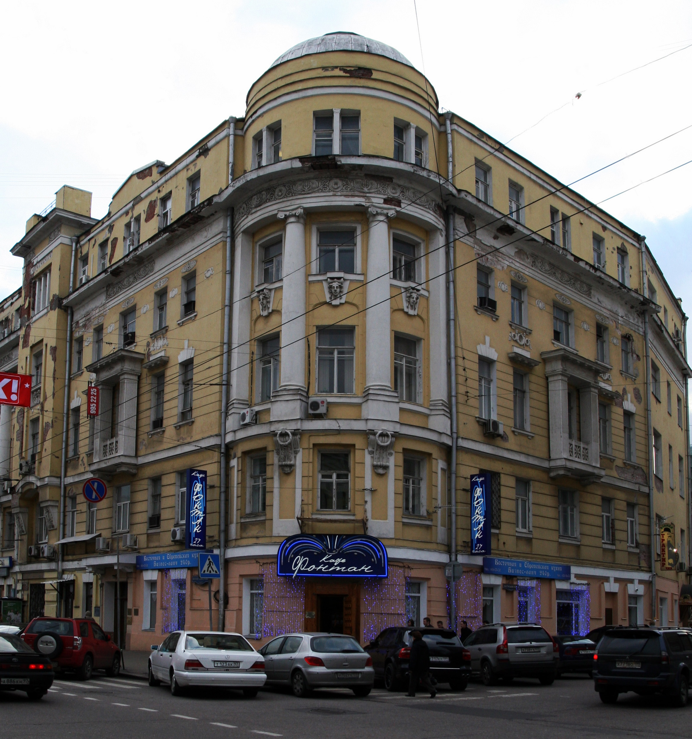 Moscow, Malaya Dmitrovka Street, 3-10